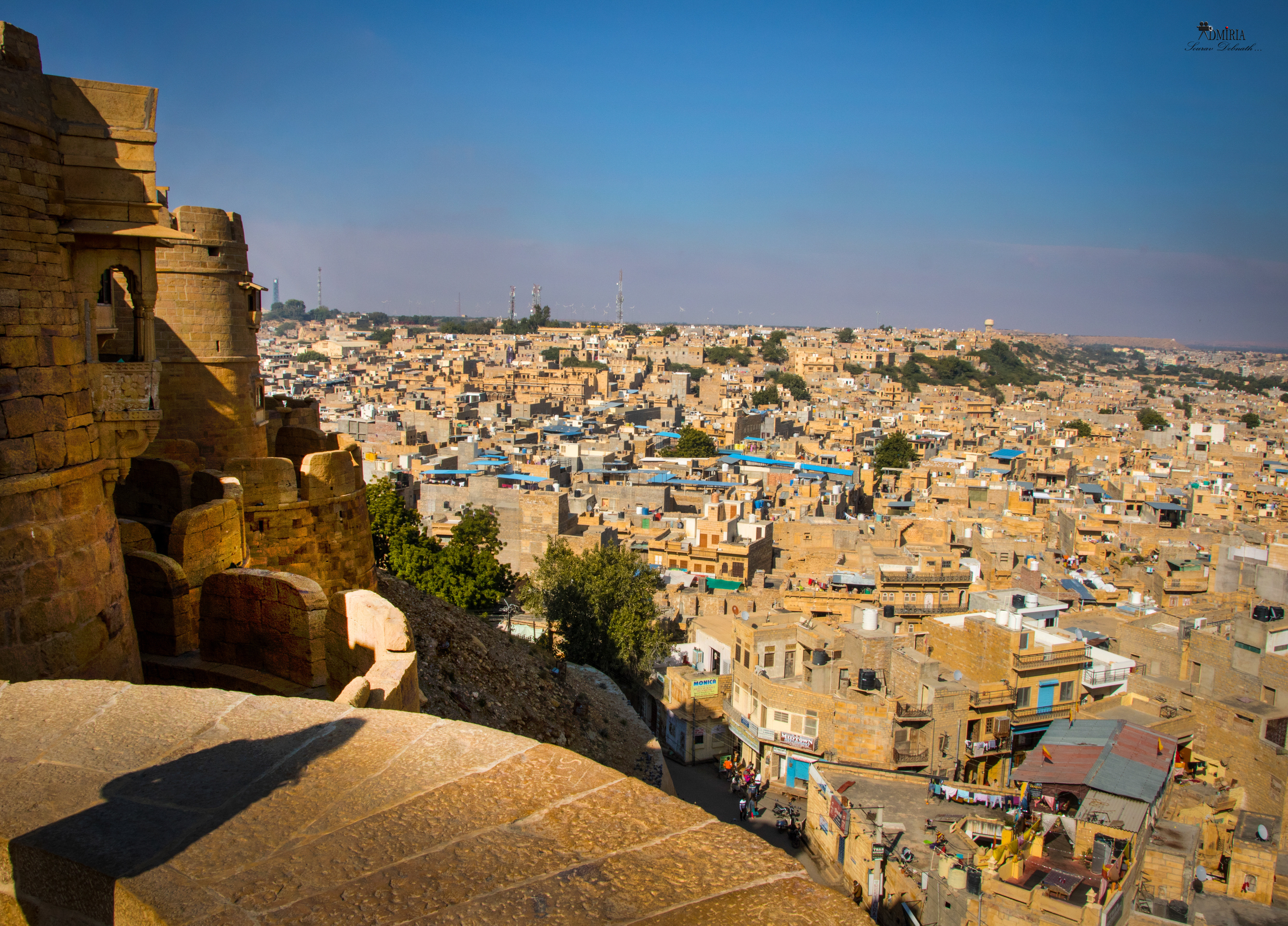 Jaisalmer city ...